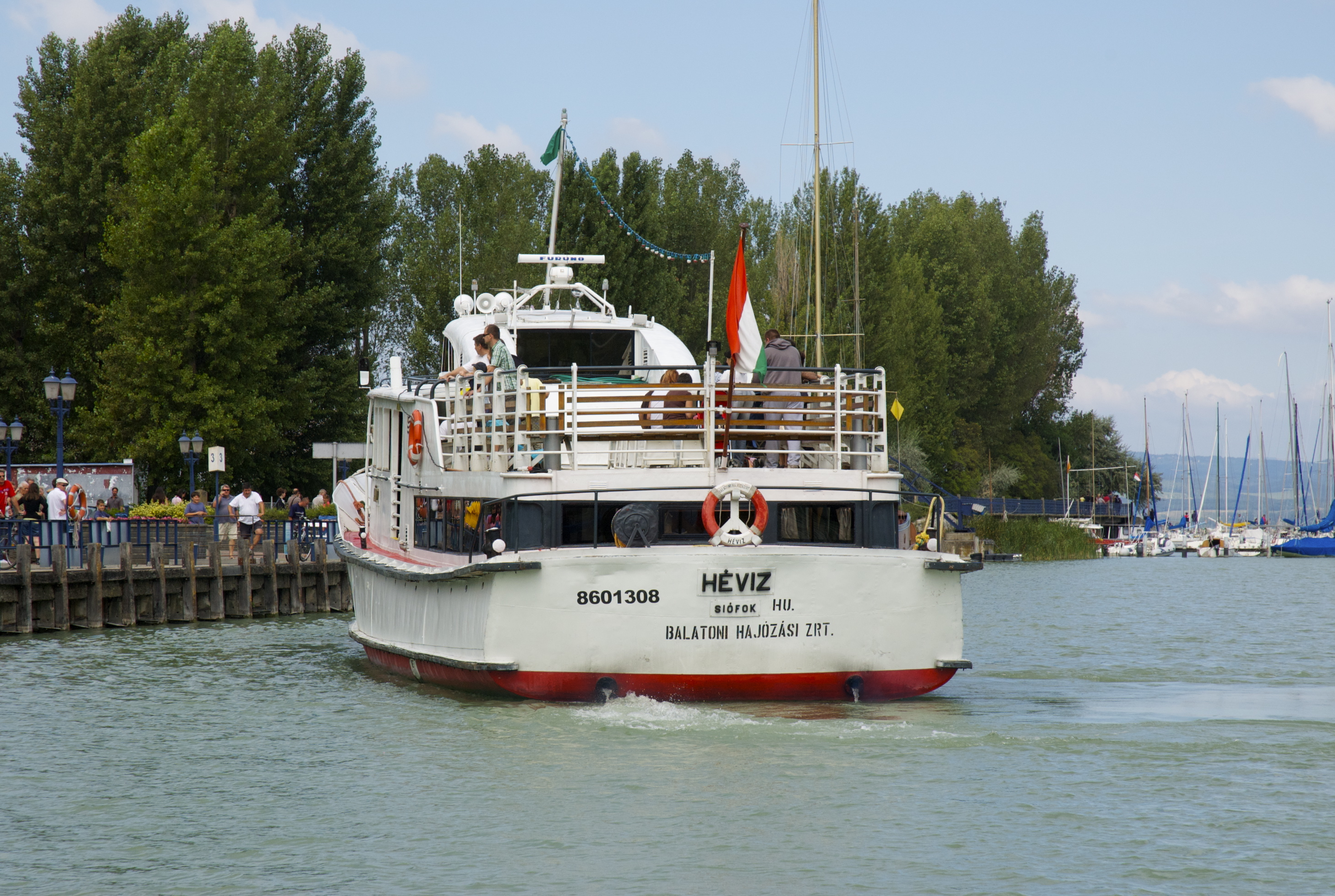 Héviz passenger ship on the Lake Balaton (Balatonföldvár, Hungary)